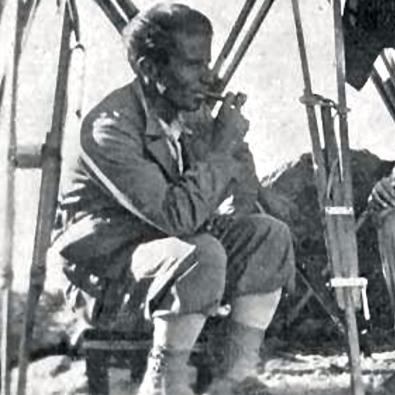 Austrian cameraman Hans Schneeberger (1895–1970) during the shootings for the mountain film Storm over Montblanc by Arnold Fanck (1889–1974).